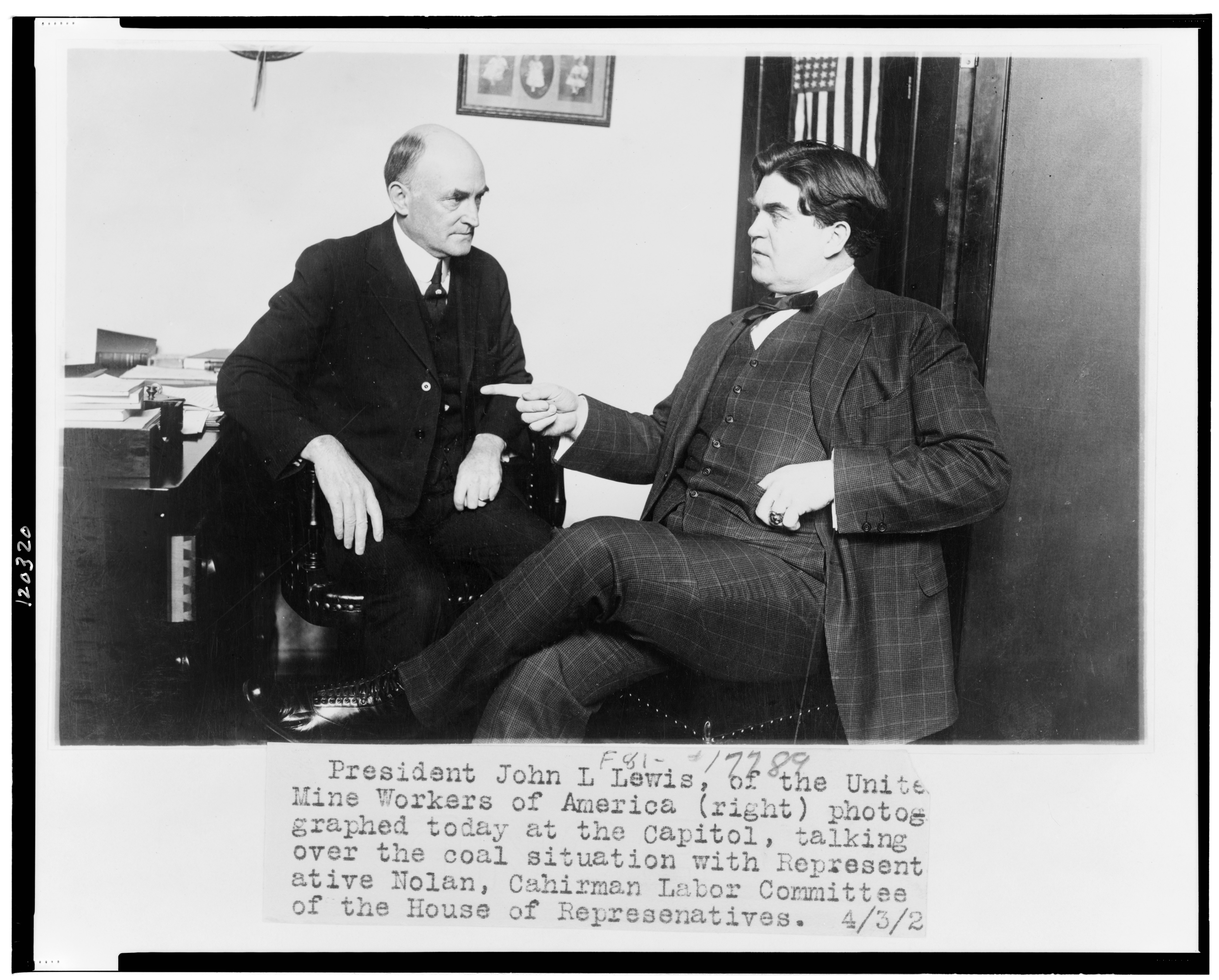 President John L. Lewis, of the United Mine Workers of America (right) photographed today at the Capitol, talking over the coal situation with Representative Nolan, Chairman of the Labor Committee of the House of Representatives